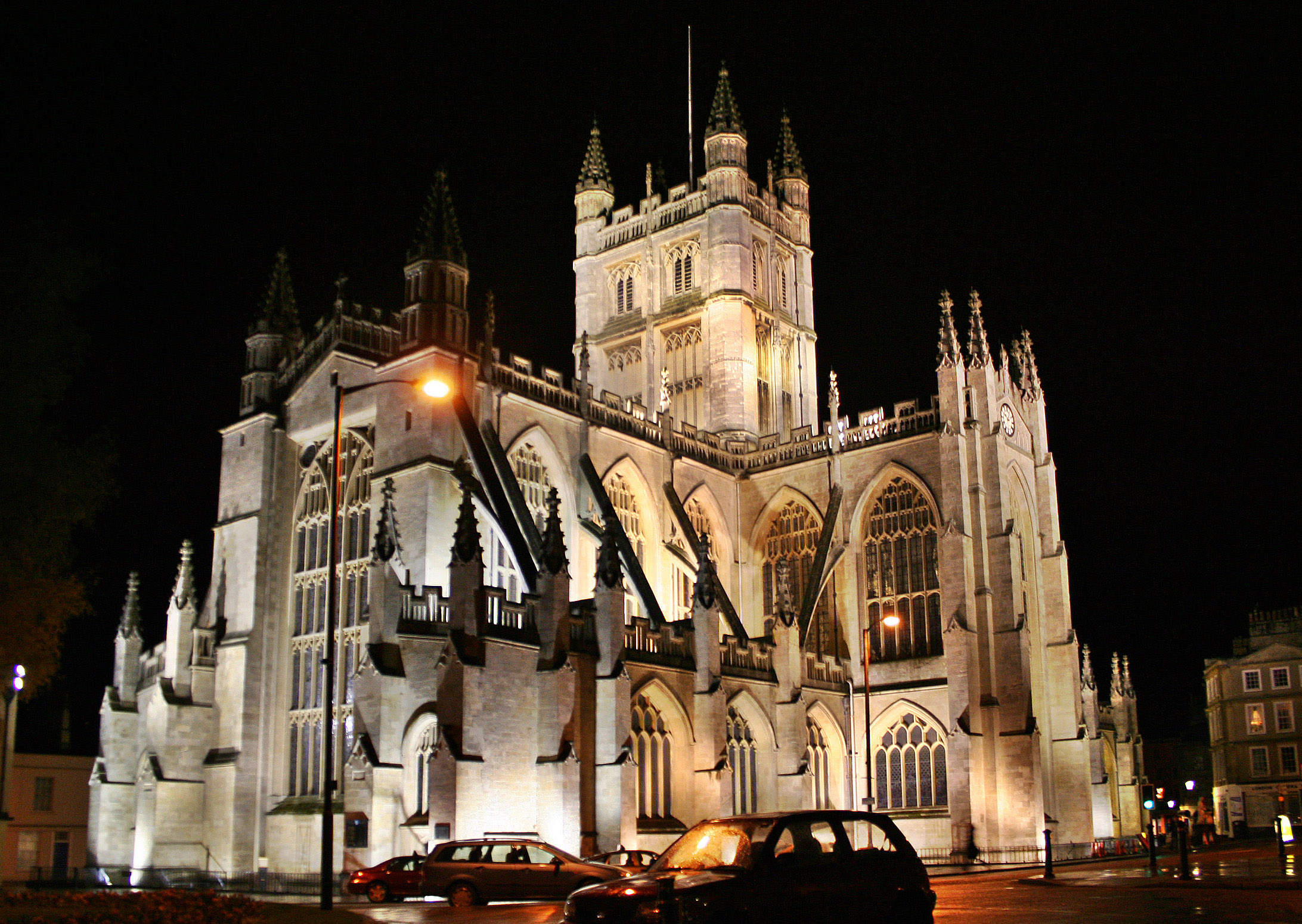 Night view of Bath Abbey, Somerset, England